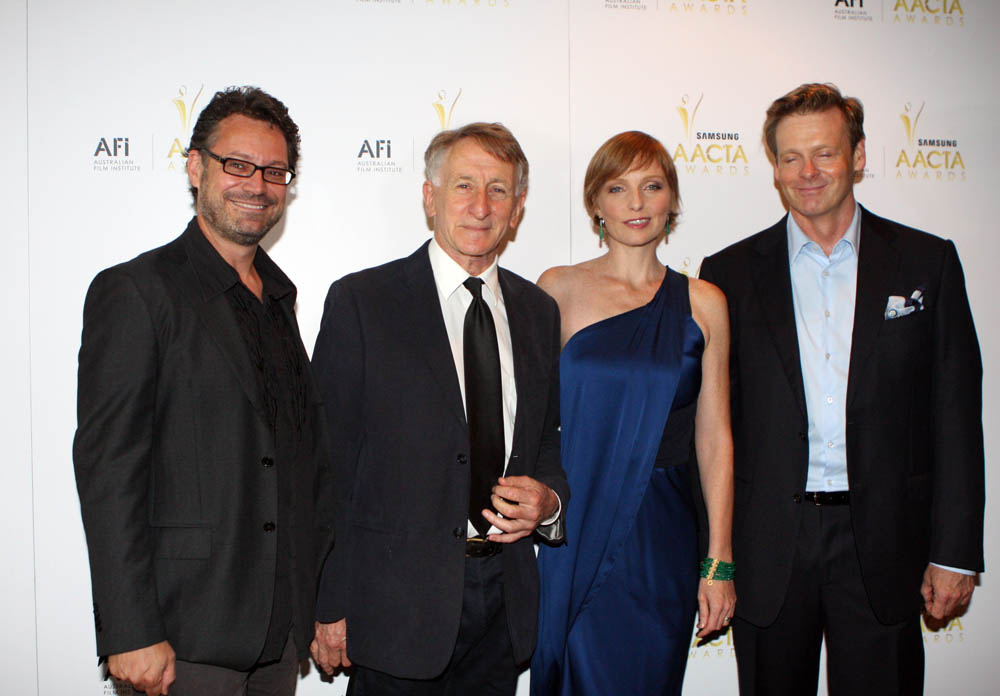 The 1st AACTA Awards were presented at the Sydney Opera House on 31 January 2012. The ceremony was preceded by a luncheon at the Westin Hotel in Sydney on 15 January 2012.